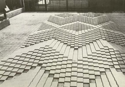 Tegelrelief Ad Dekkers ROC College Gouda 2. Door vergroting van het schoolgebouw, werd het kunstwerk verwijderd. In 2019 kreeg het een nieuwe bestemming. Het Bruns park in Bergeijk